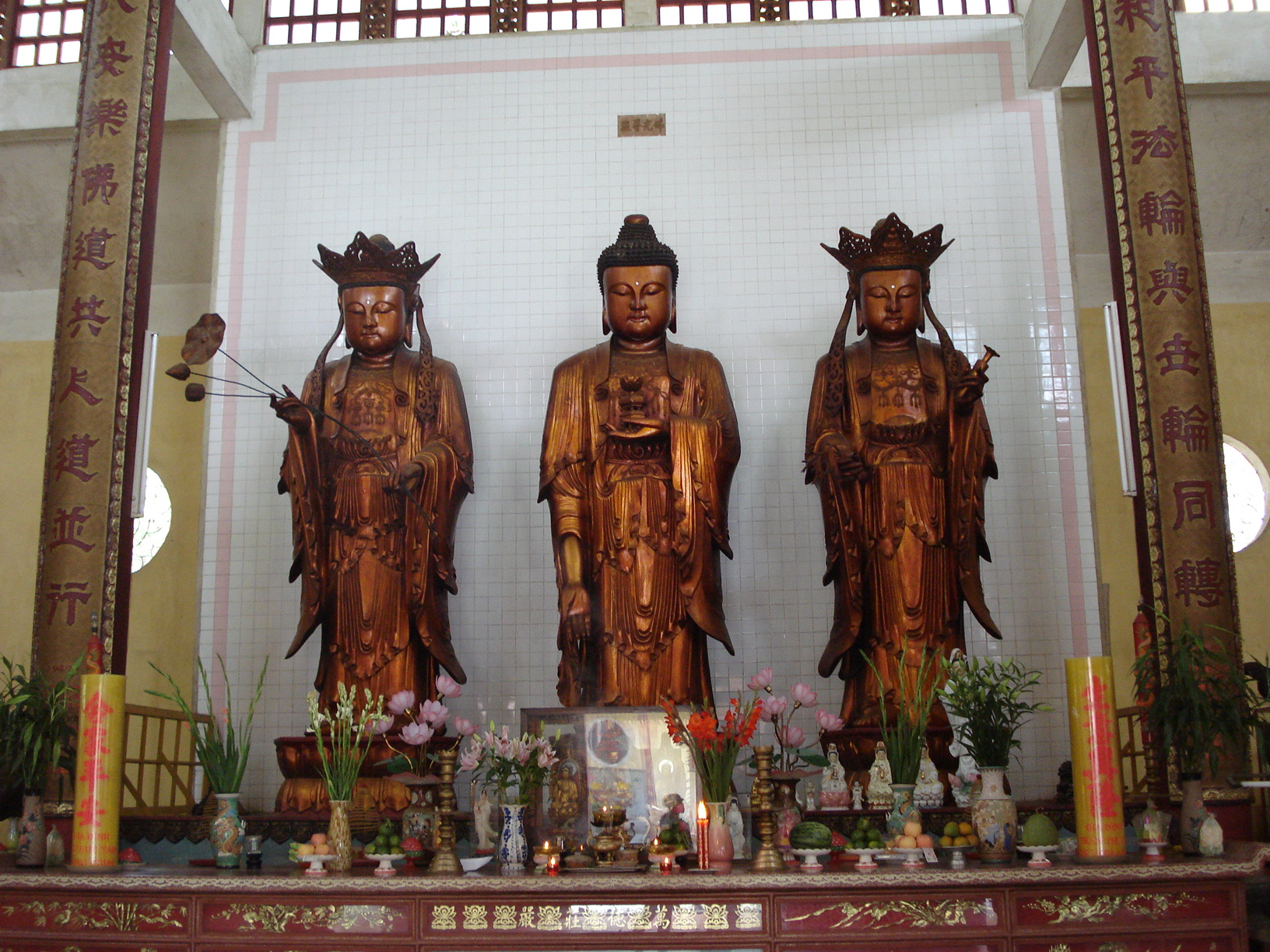 Thien Vuong Co Sat Pagoda